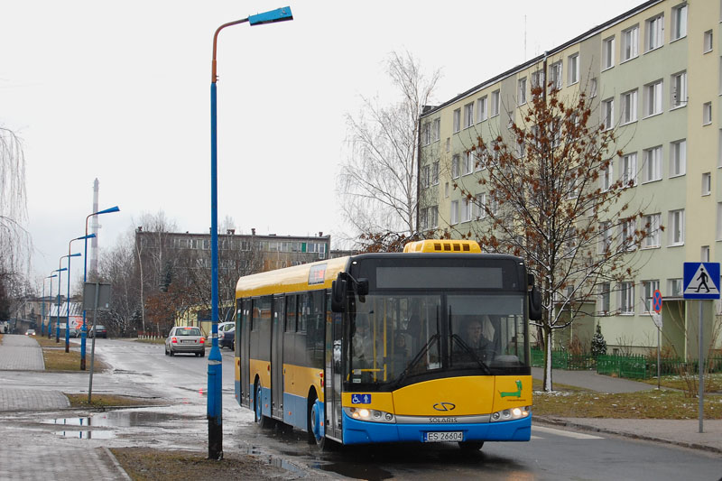 Solaris Urbino 12 bus (reg. ES 26604) in Skierniewice, Poland. Built 2009, MZK Skierniewice operator.